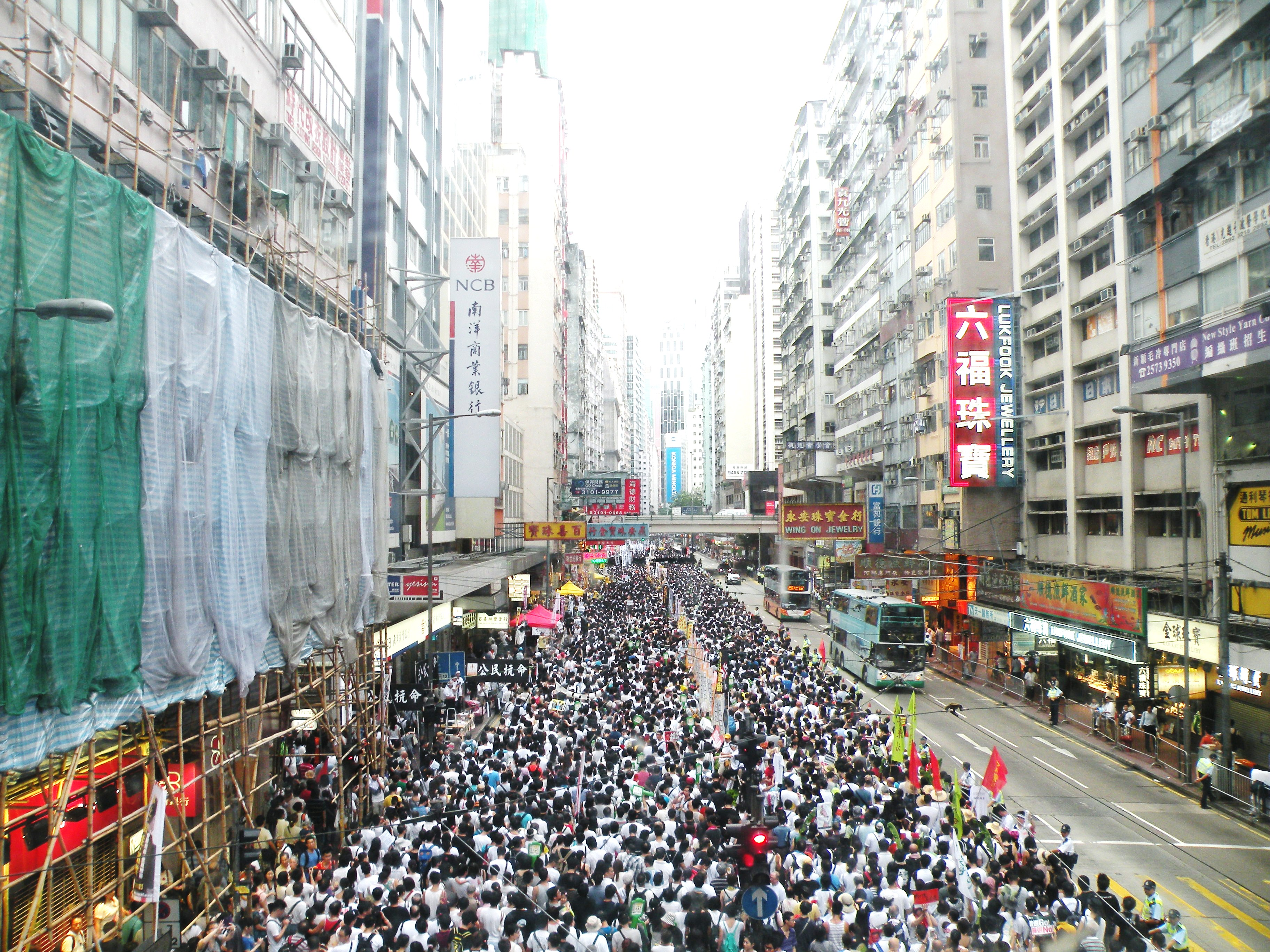 510,000 people participated in Hong Kong July 1 marches 2014, was second largest amount after 2004.